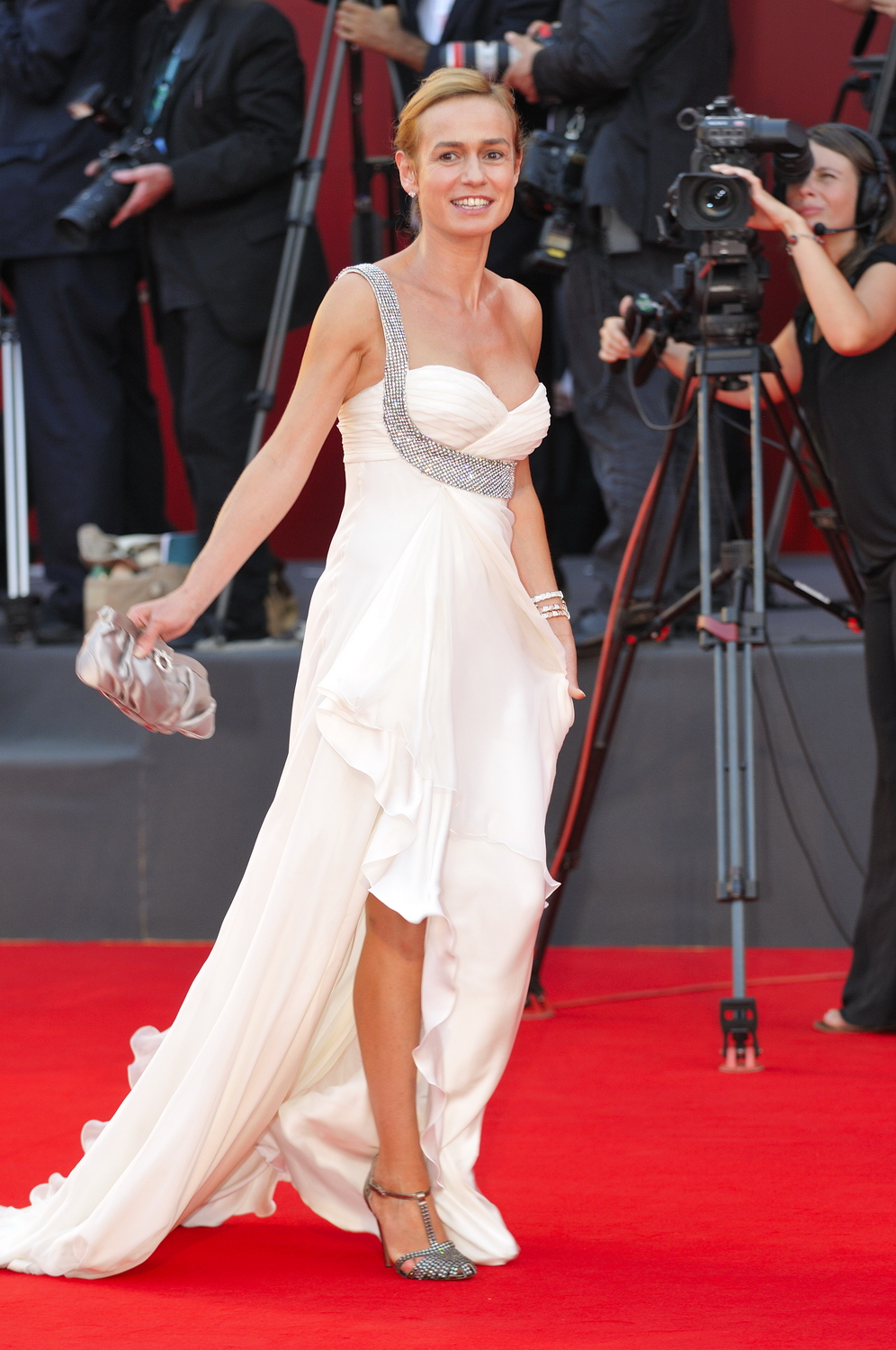 Sandrine Bonnaire at the 2009 Venice Film Festival